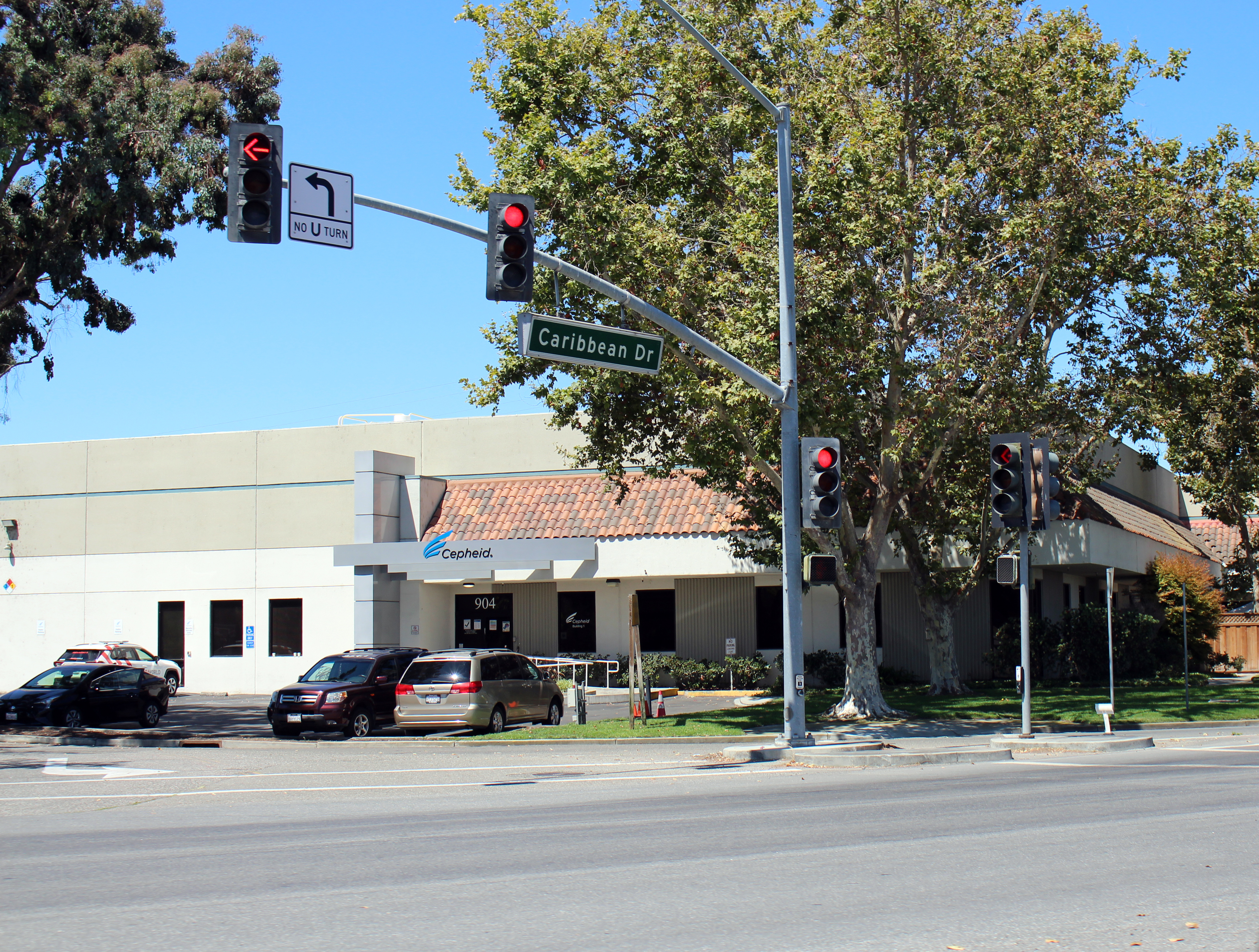 Building 1 at Cepheid headquarters in Sunnyvale, California. Photographed by user Coolcaesar on August 2, 2020.